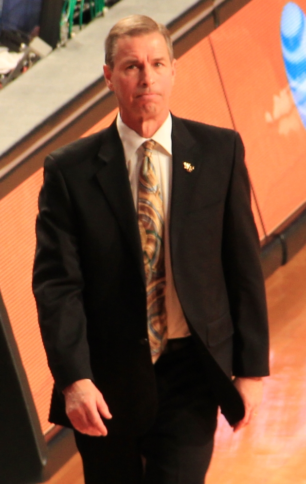 Wake Forest men's basketball coach Jeff Bzdelik, 2013